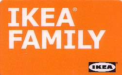 Scan of IKEA Family card, issued in Canada in 2012. Shows the front of the card